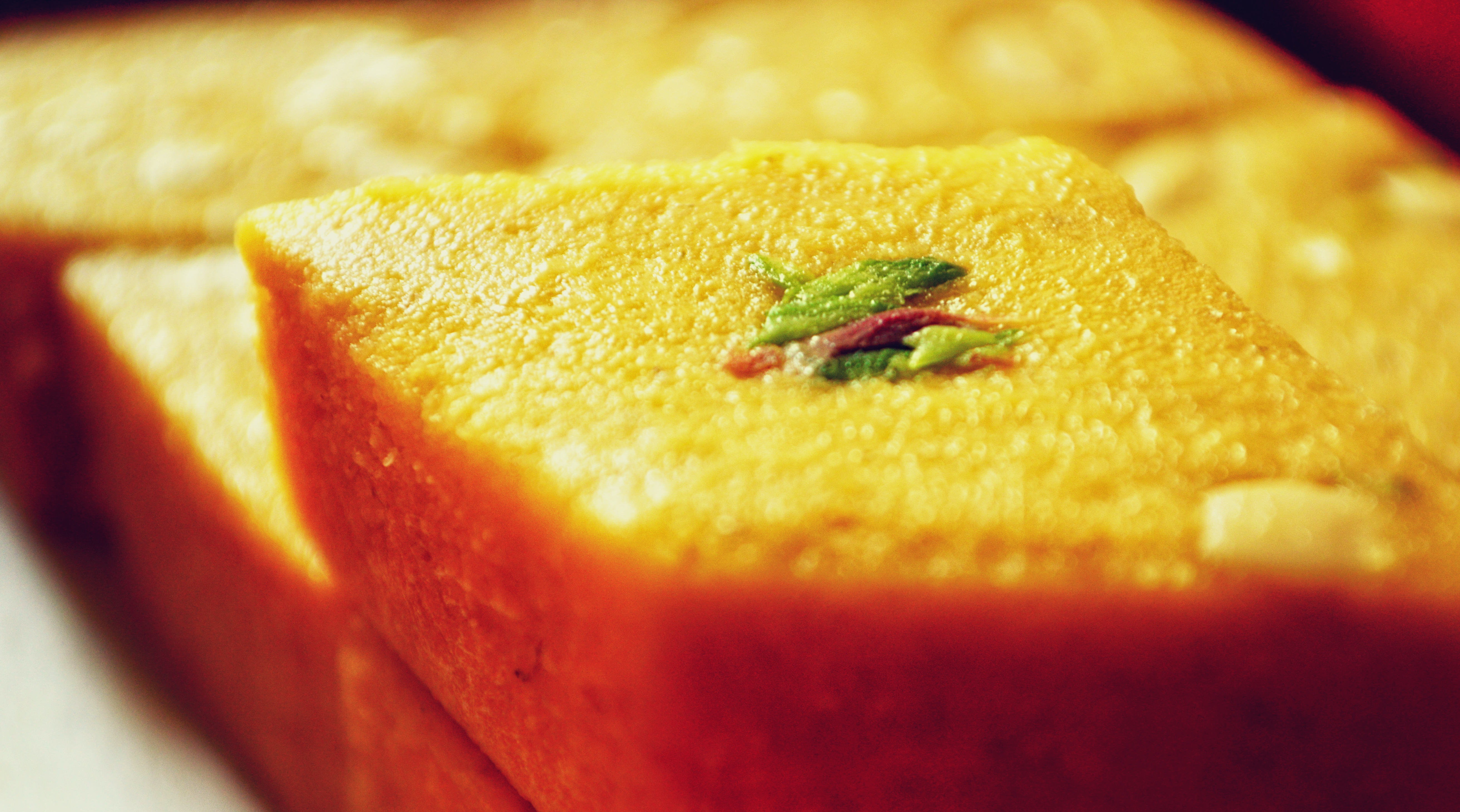 Images from Wiki Loves Food 2015